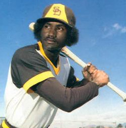 Professional baseball player Gene Richards